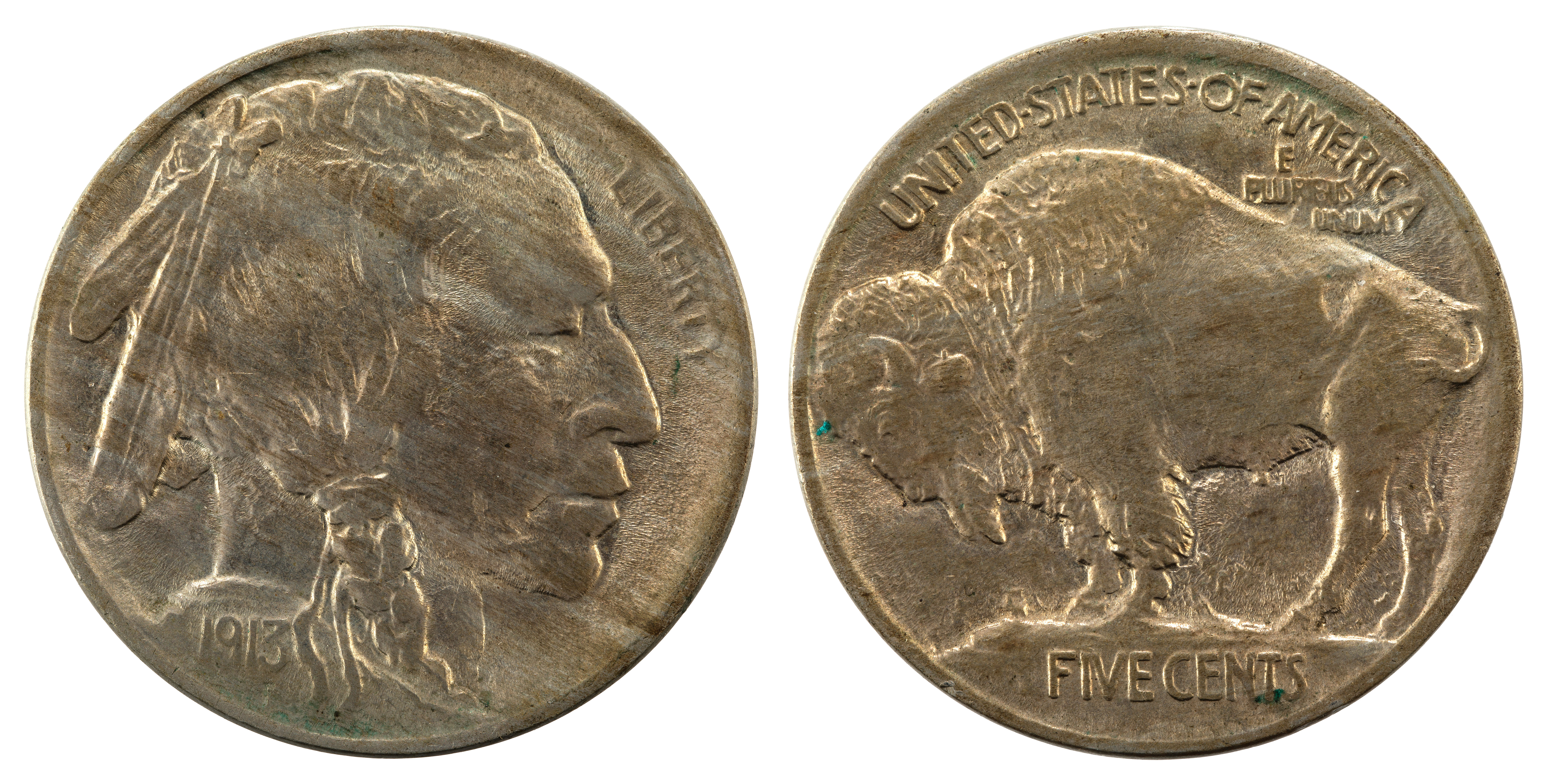 1913-5C-Buffalo Nickel (TyI-mound), Copper-Nickel, 21.2mm, 5.0g, designed by James Earle FraserJN2015-6586-87